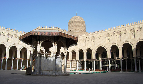 The pavillion of the Al-Muayyad Mosque in Cairo.